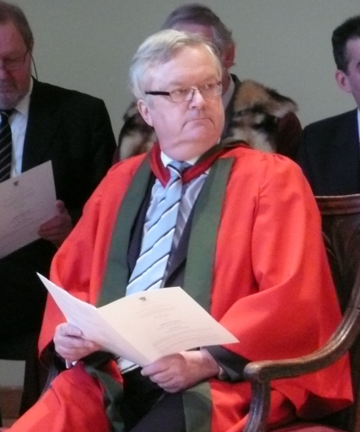 A picture of Dr Stephen taken at a school event